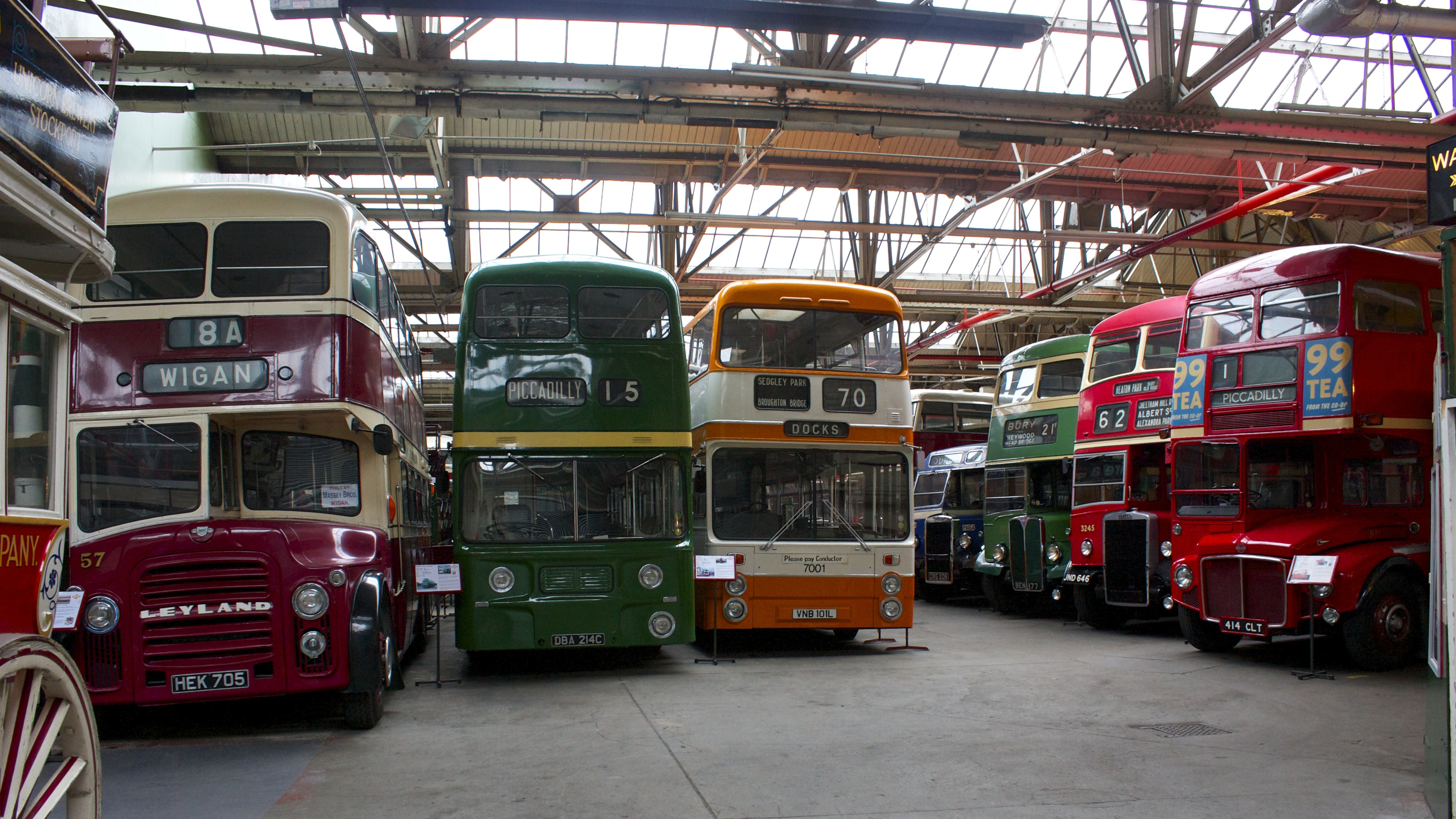 Some of the buses on show